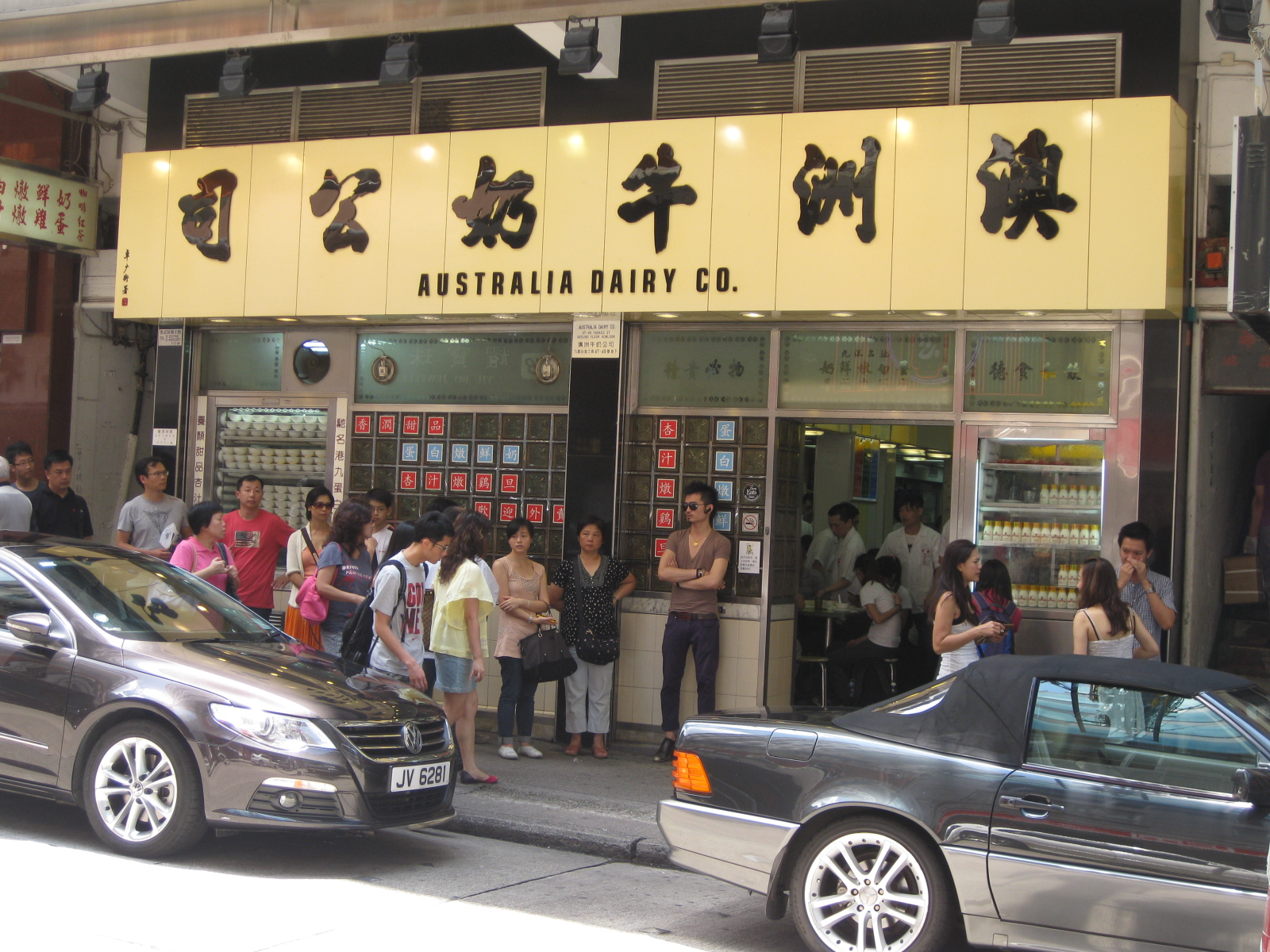 Australia Dairy Company outlook